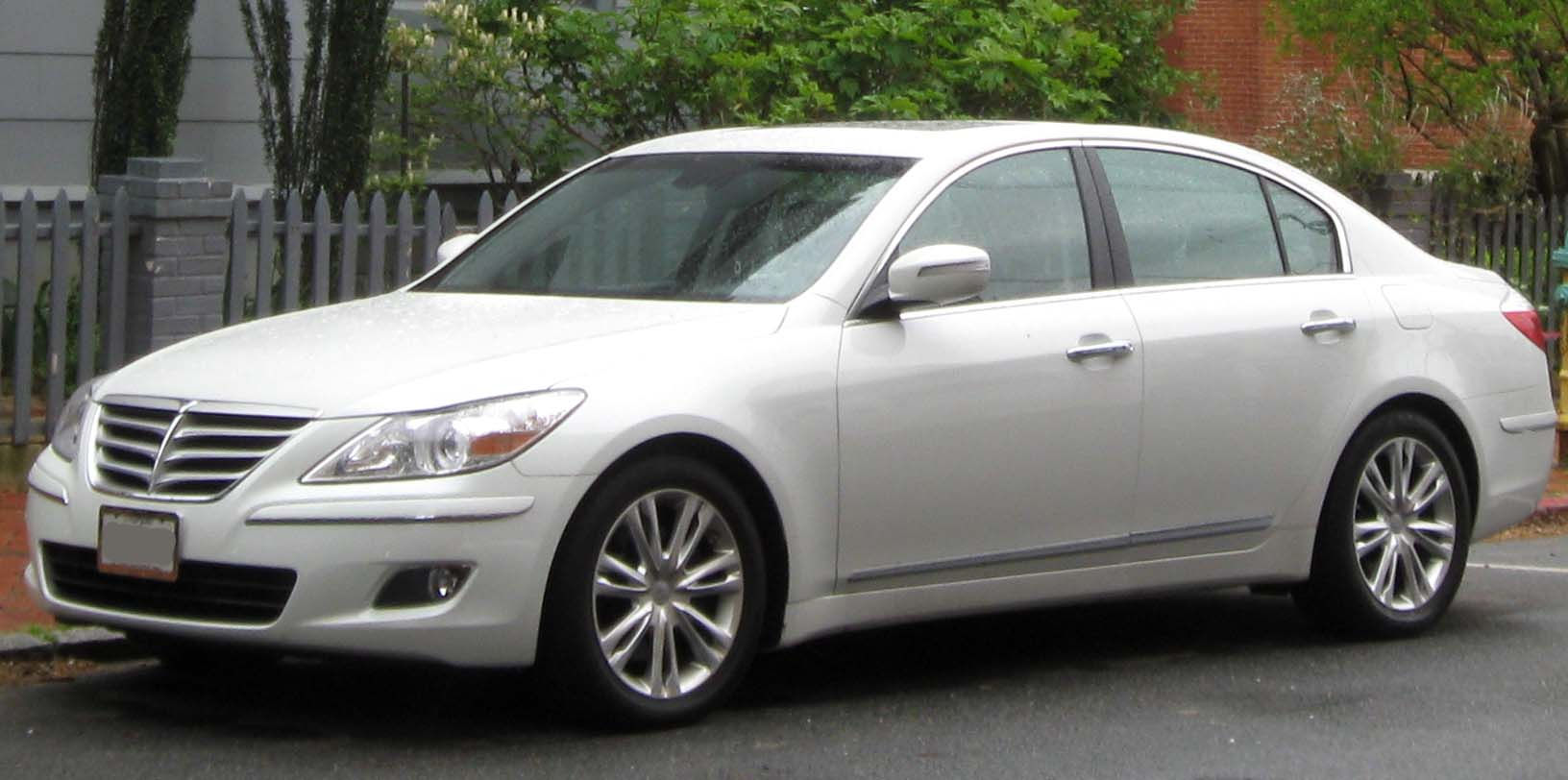 2009-2010 Hyundai Genesis photographed in Annapolis, Maryland, USA.